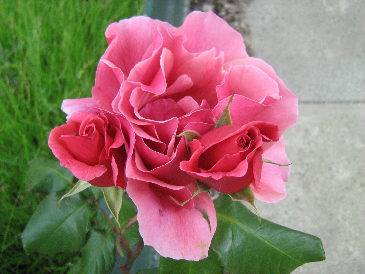 Duet. ACCURATE COLOURS